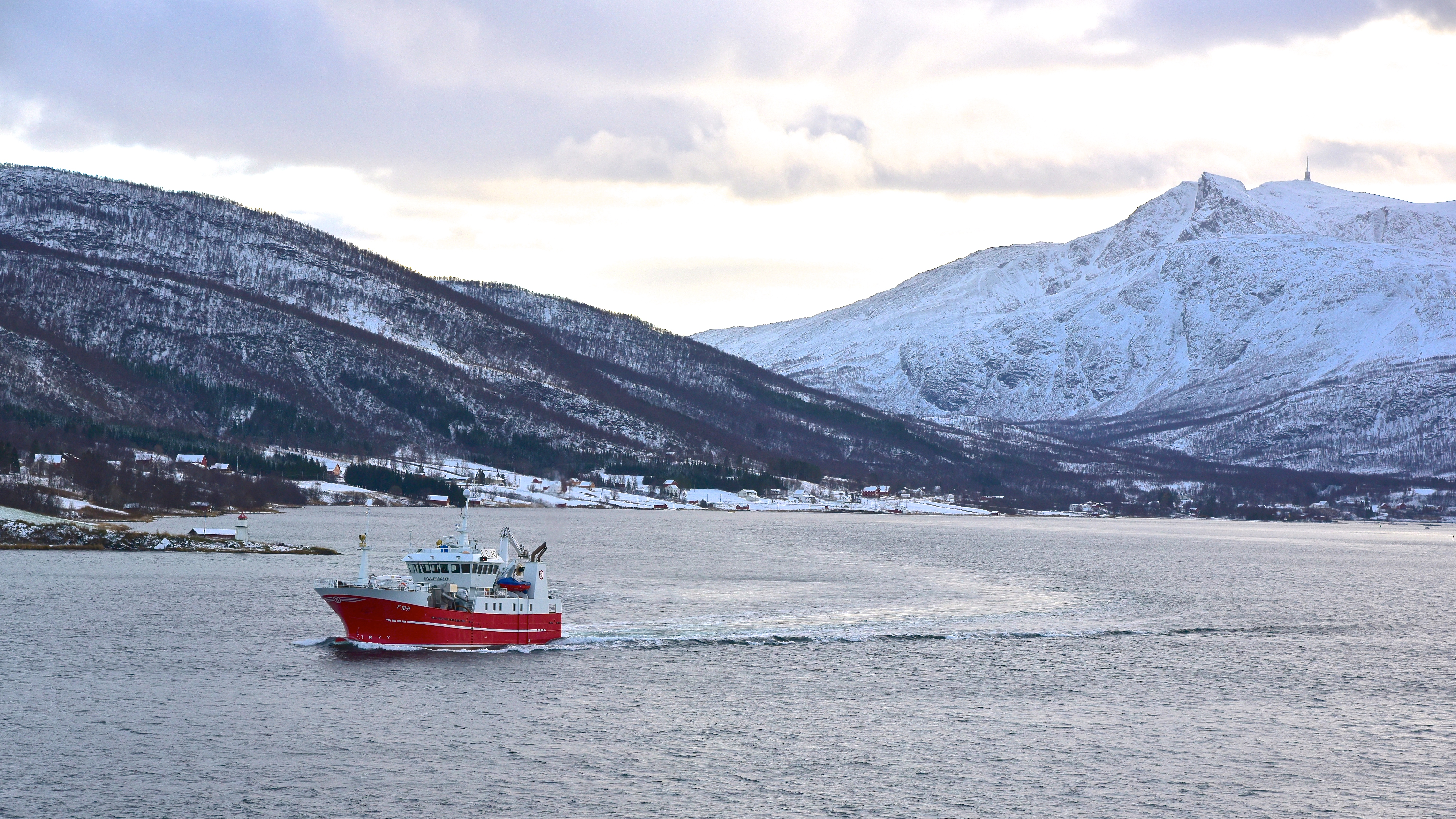 Fishing boat in Gisundet. Kistefjellet mountain in the background.